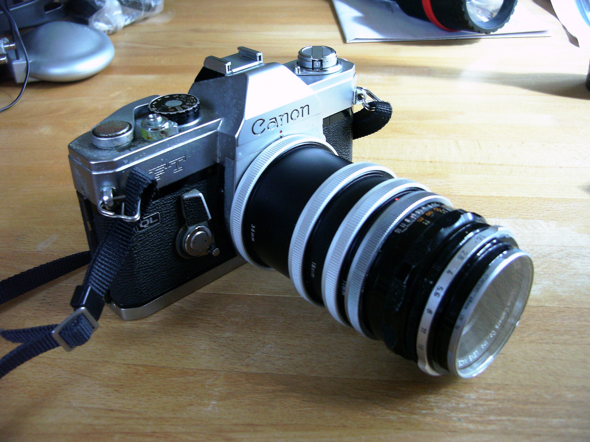 This is a Canon FT camera with macro extenders.